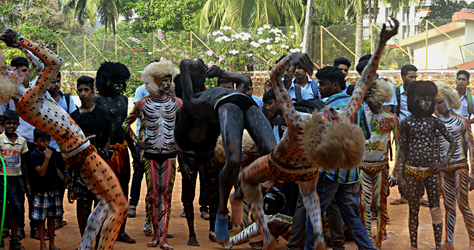 ಪಿಲಿತ ವೇಷ